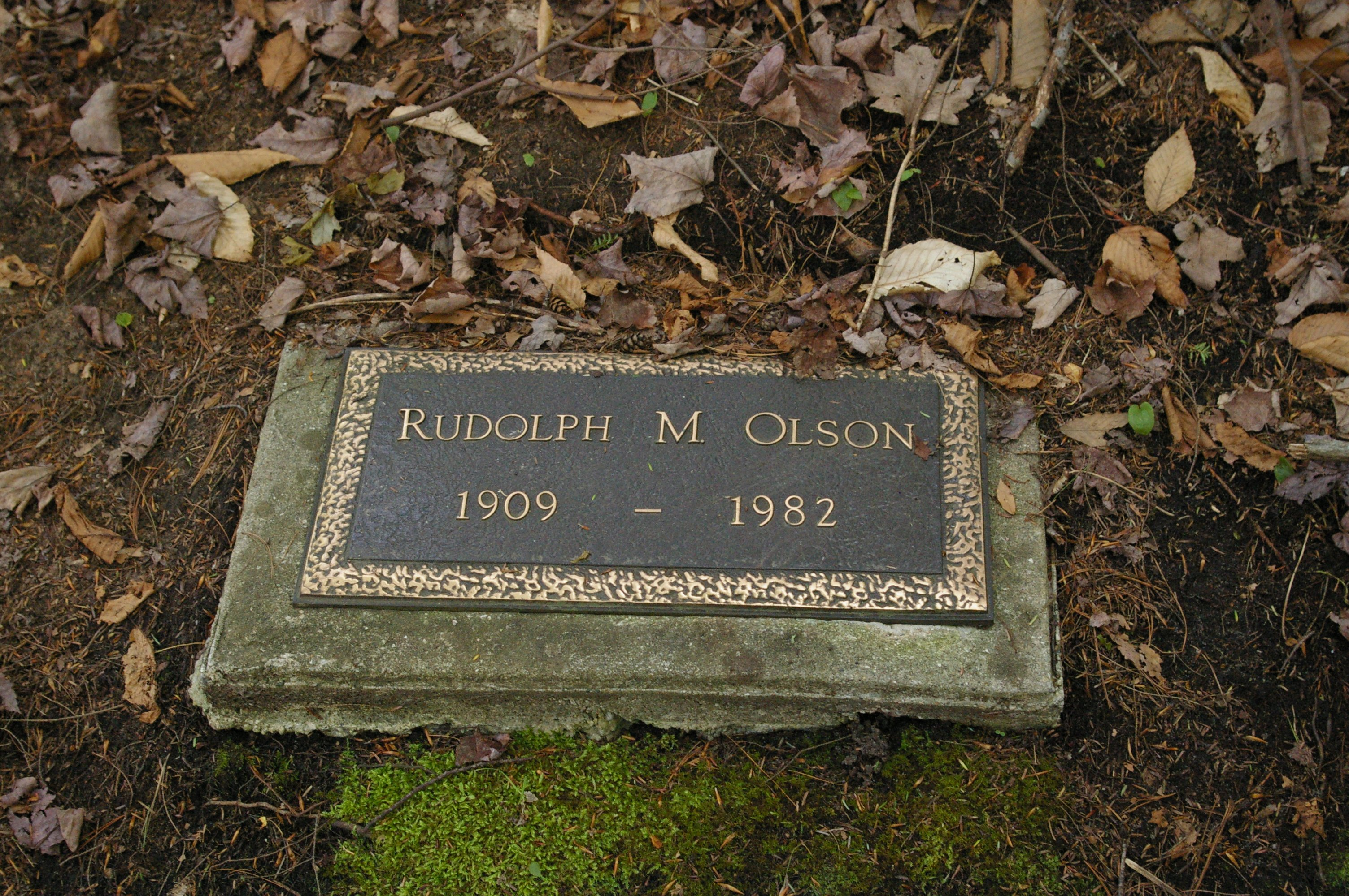 Grave of Rudolf Olsen near Tannery Falls, Munising, MI